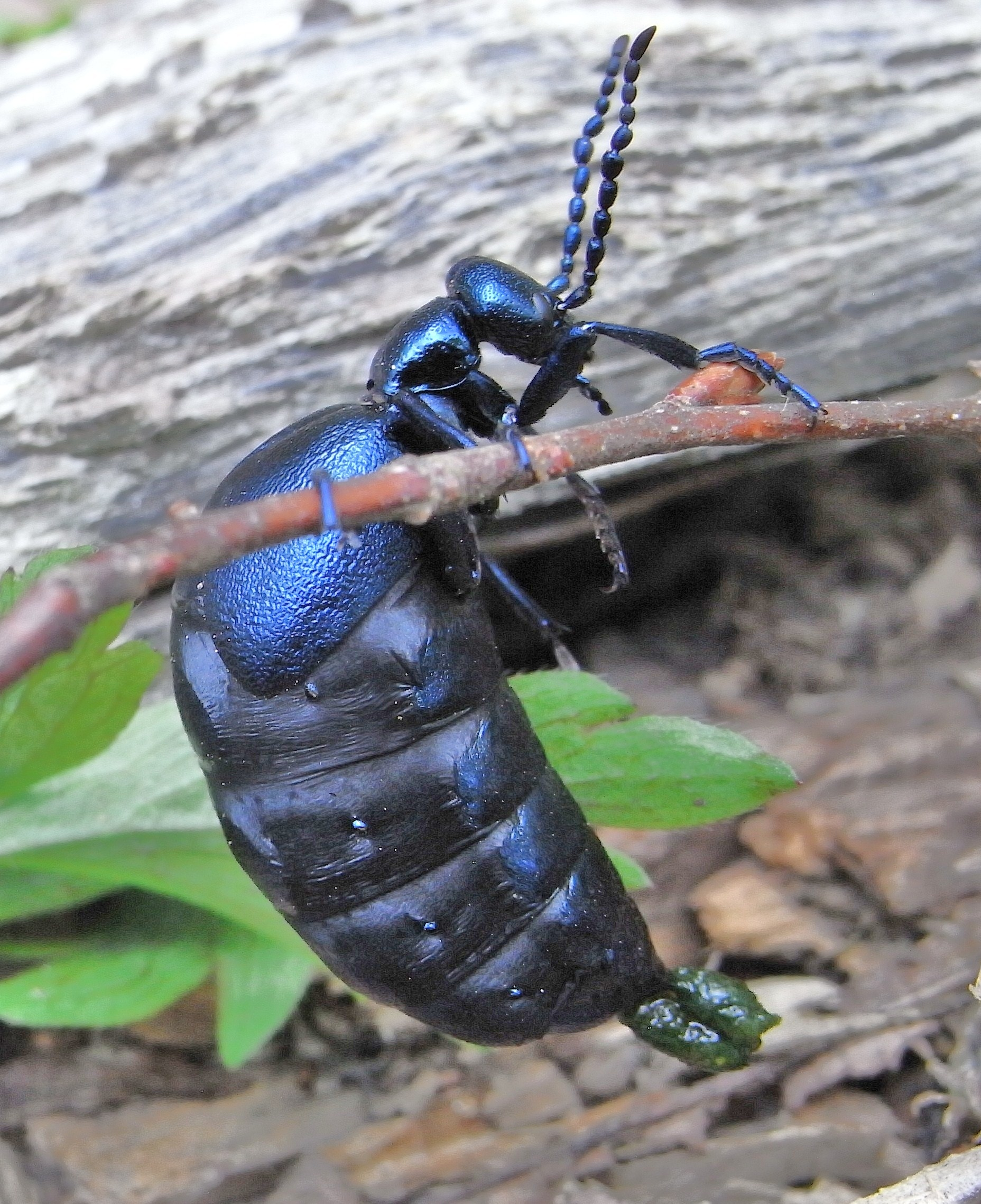 Meloe violaceus from Hungary at Villany hills at 2010-05-07 Ricoh R8